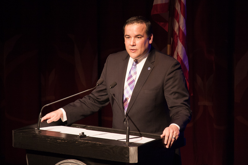 Newly-inaugurated Mayor Andrew Ginther speaks at his community swearing-in event at Columbus' historic Lincoln Theatre on January 13, 2016.